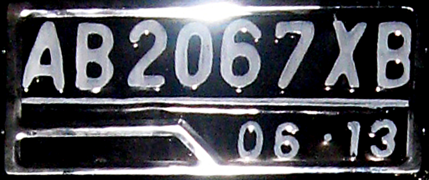 A photograph of the registration plate for my Suzuki Skywave scooter, for use with the vehicle registration plates of Indonesia article and any derivatives.